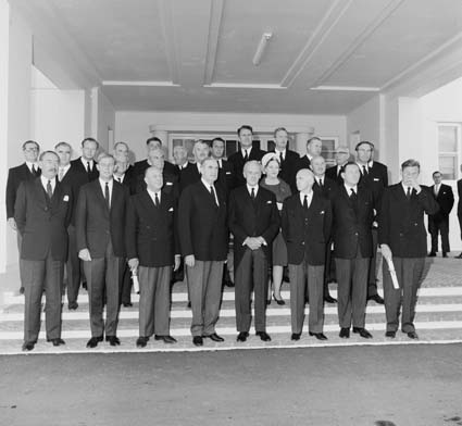 The McEwen Ministry being sworn in by Governor-General Lord Casey